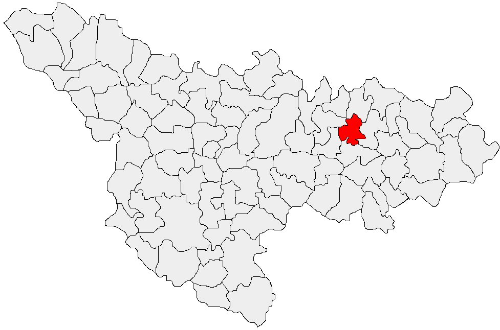 Balint, a commune of the Timis judet, Banat, Romania